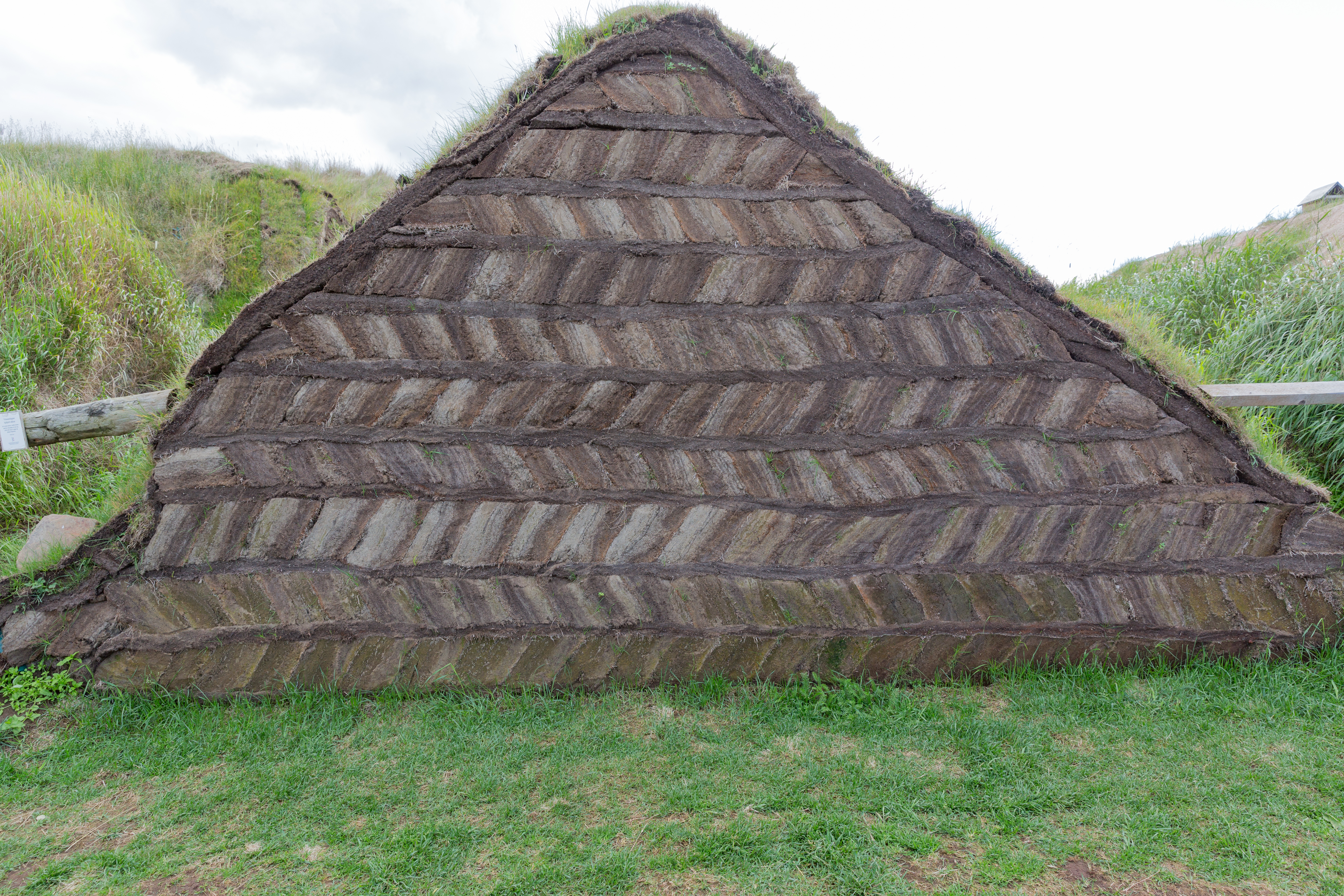 turf wall in turf farm at Glaumbær